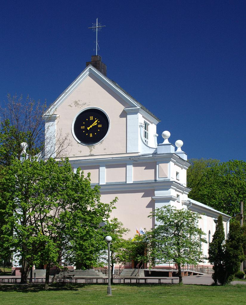 Our Lady Queen of the Rosary church in Puławy, Poland